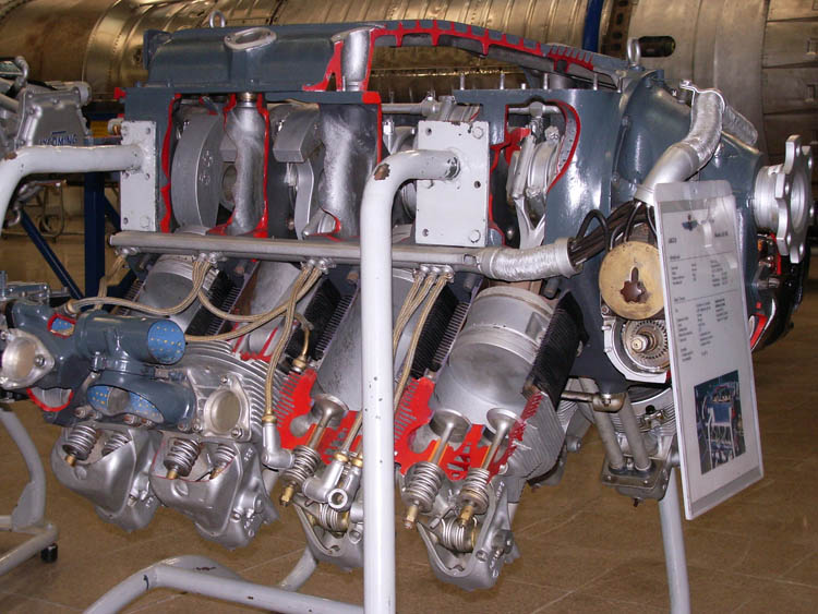 Argus As 10 aircraft engine in "Museo del Aire", Spain.